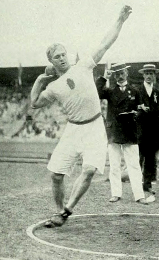 Elmer Niklander during the shot put competition at the 1912 Summer Olympics in Stockholm